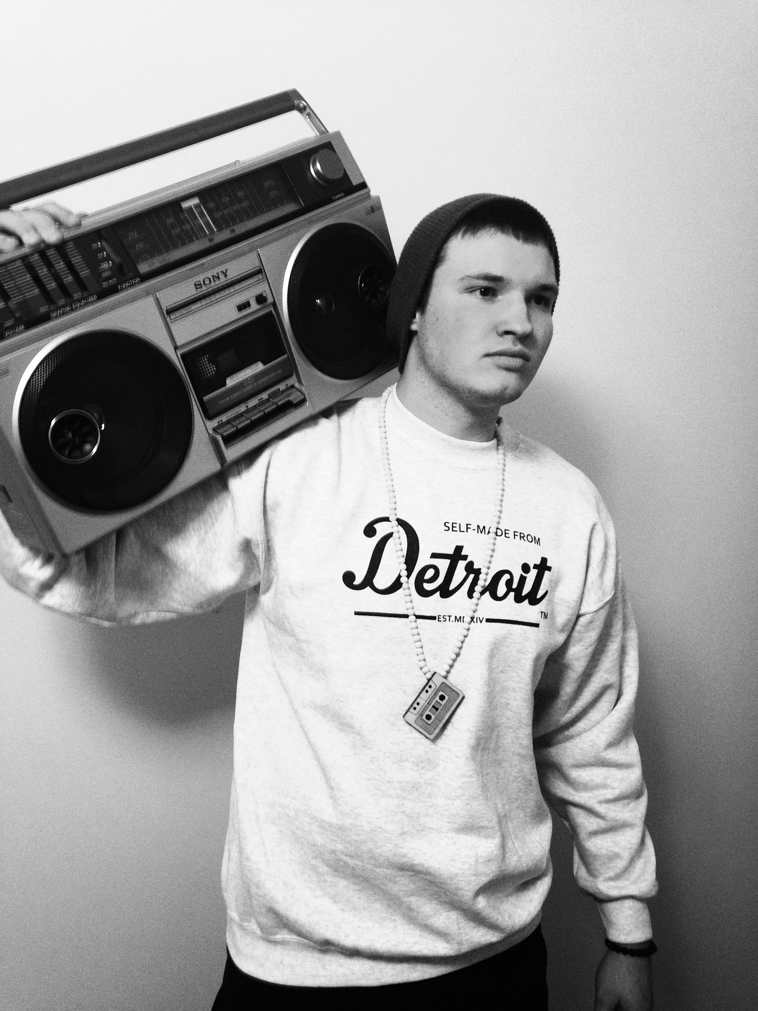 Tyler Lyijynen aka Xero, attending photo shoot for RudeBoy Magazine